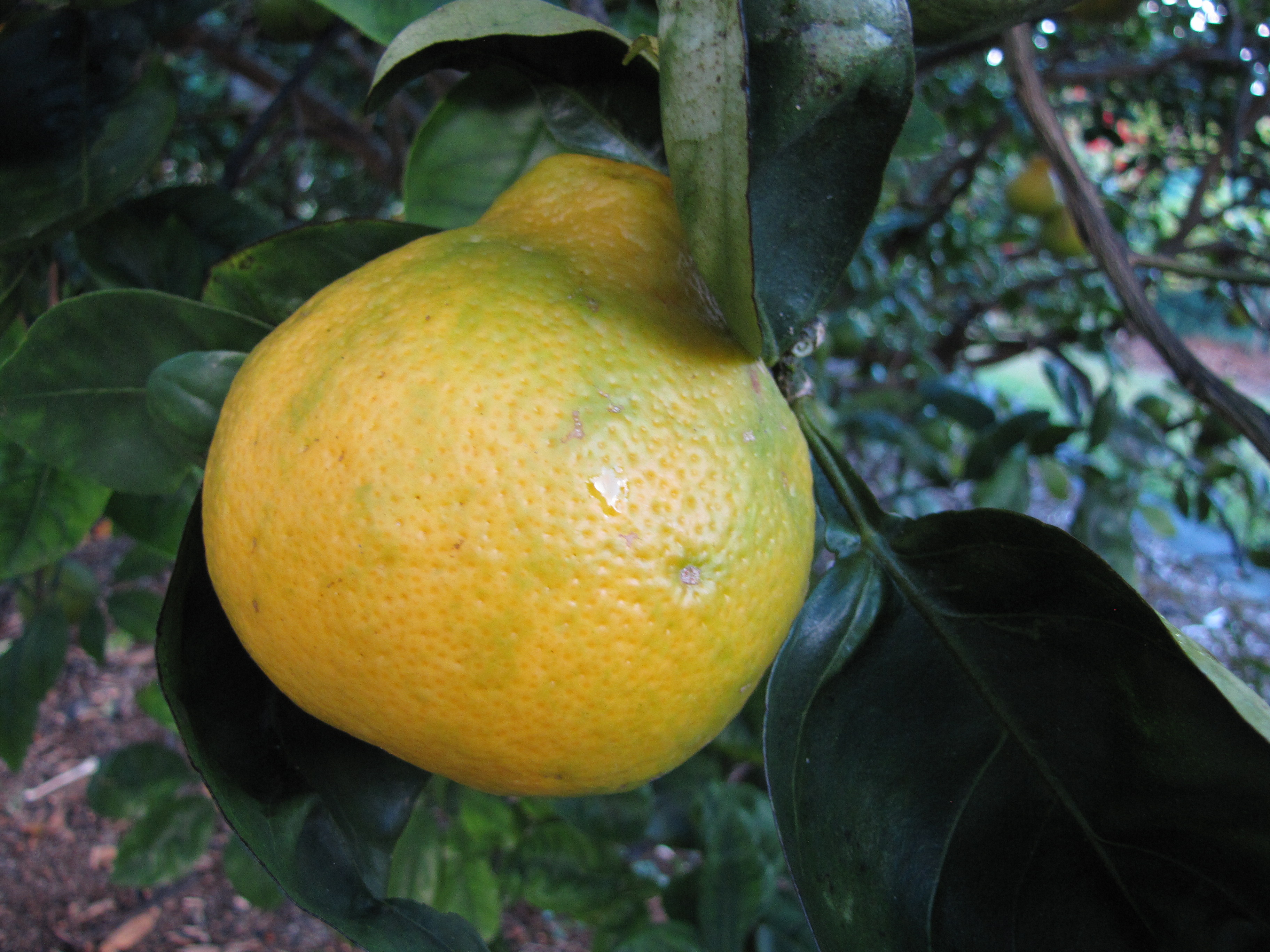 Citrus x tangelo (Tangelo) Fruit at Pali o Waipio, Maui, Hawaii. November 08, 2012 #121108-0859 Image Use Policy Minneola tangelo is a hybrid of Duncan grapefruit and Dancy mandarin, sometimes marketed under the name Honeybell. It was developed by USDA and released in 1931.